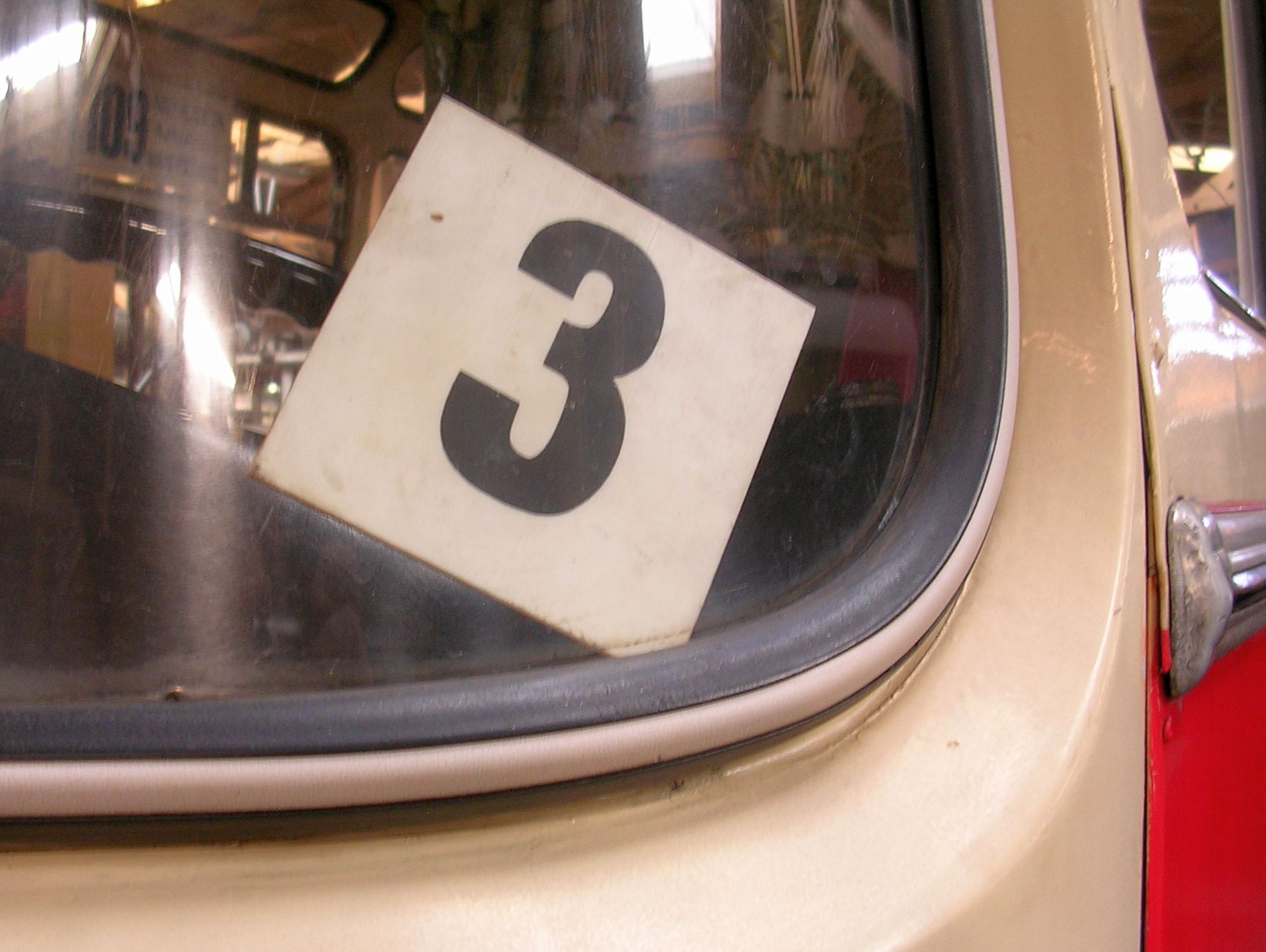 Střešovice, Prague, the Czech Republic. Bus Karosa ŠM 11.